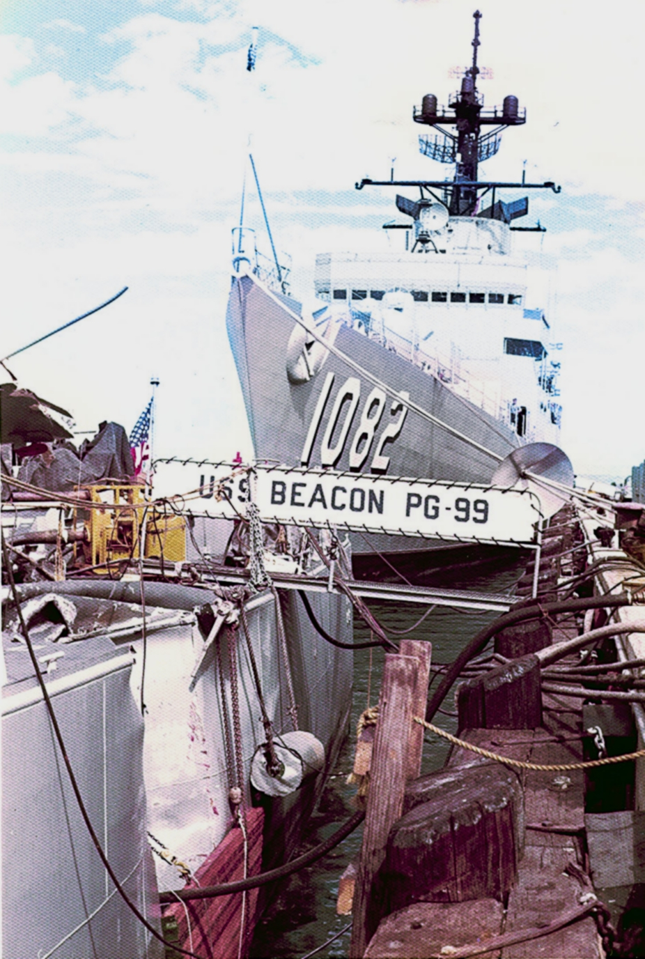 The U.S. Navy patrol gunboat USS Beacon (PG-99) after collision with a Dutch gunboat, dockside in Guantanamo, Cuba. The frigate USS Elmer Montgomery (DE-1082) is visible in the background.